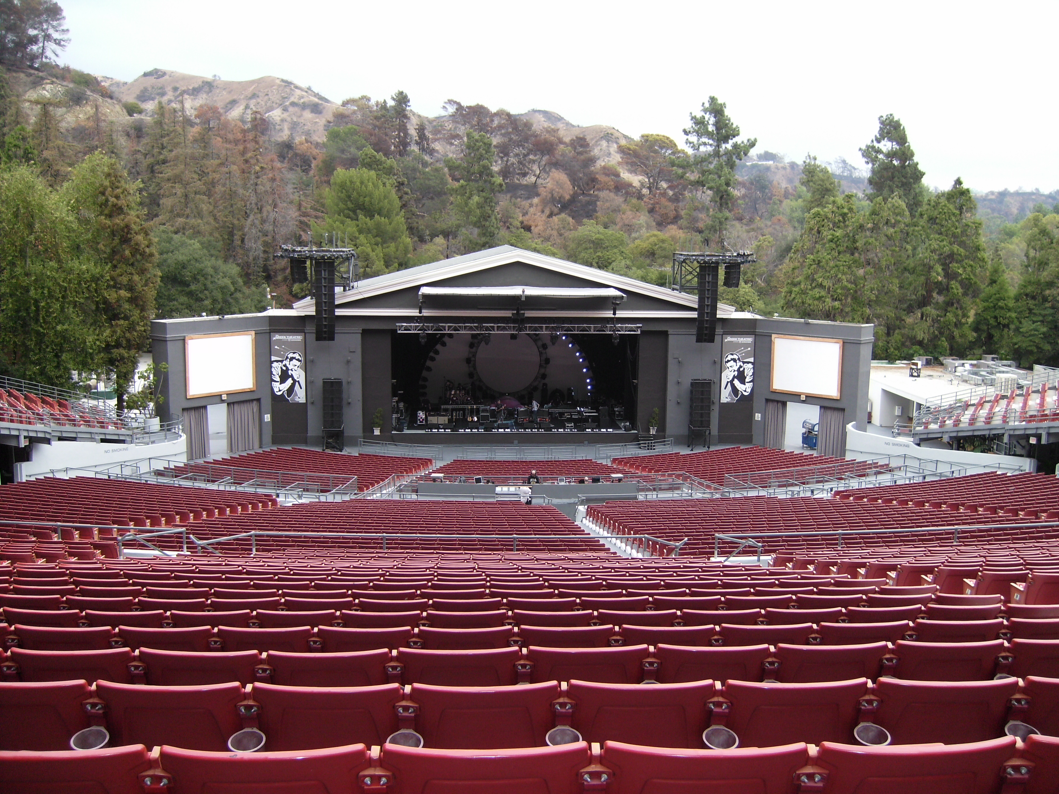 Greek Theater (Los Angeles) 2007